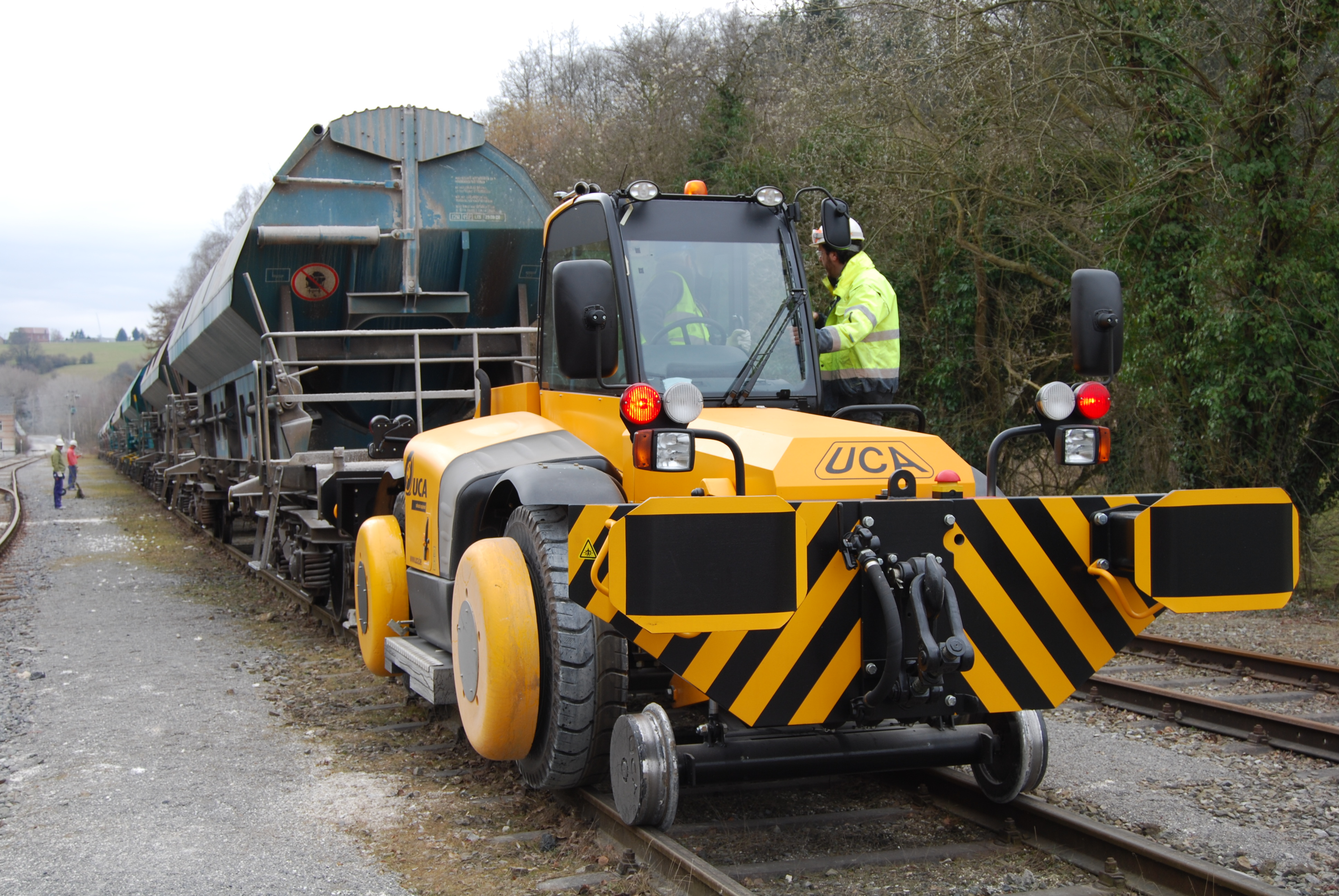 A shunting vehicle type UCA-TRAC B16, by UCA Belgium.